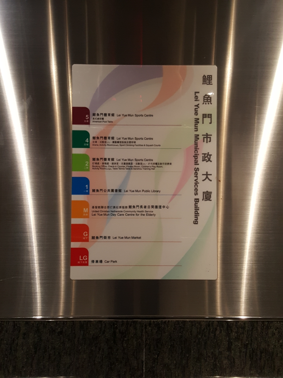 Lei Yue Mun Municipal Services Building Directory